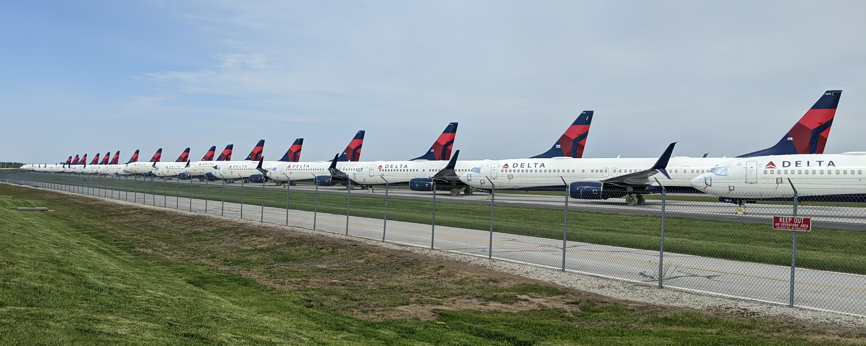 Delta Air Lines planes (mostly 737's and A321's) parked at MCI on the north end of taxiway F and runway 1R/19L (in the background) due to COVID-19 Pandemic